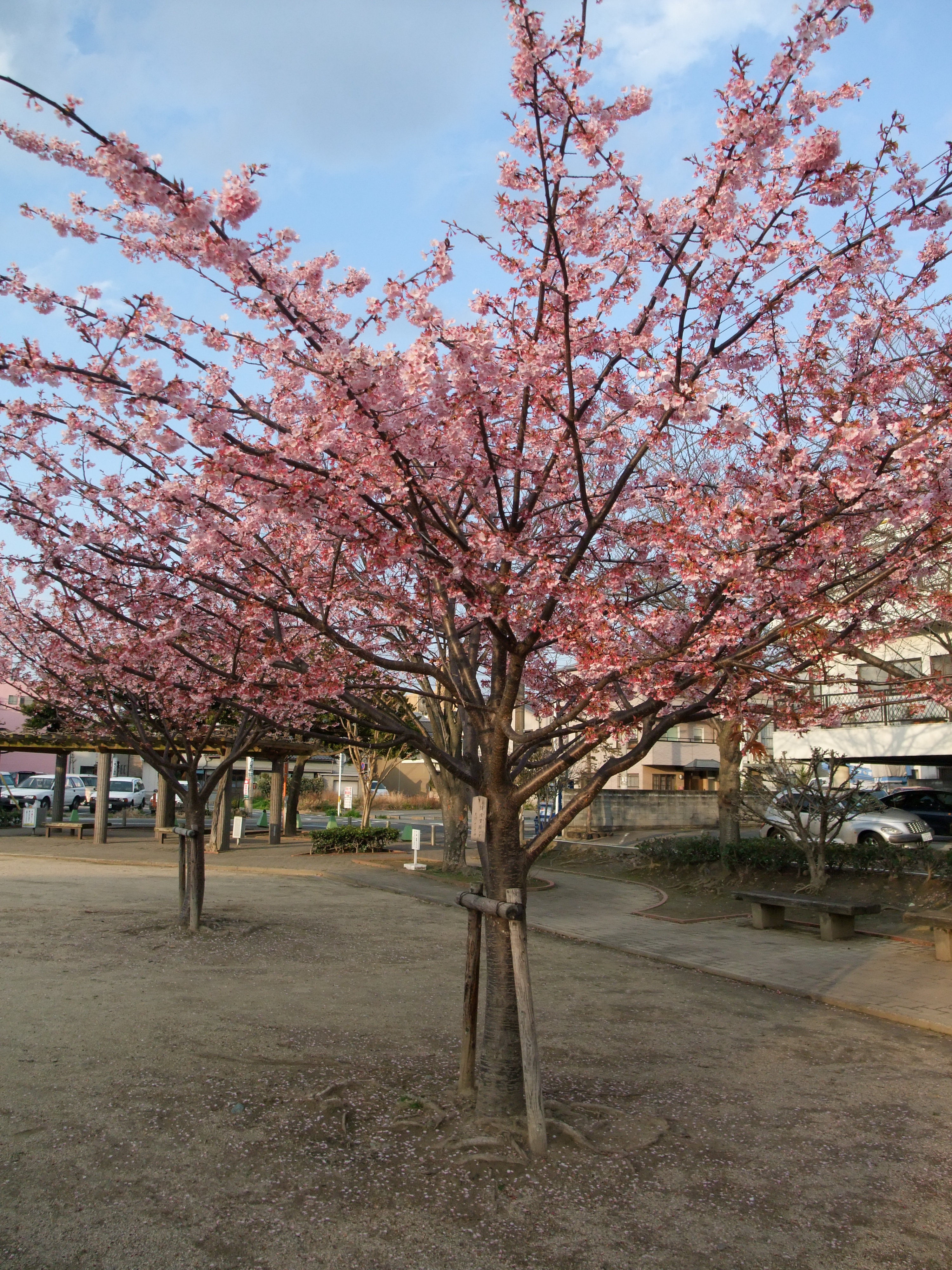 Hachisuka-sakura planted in park.